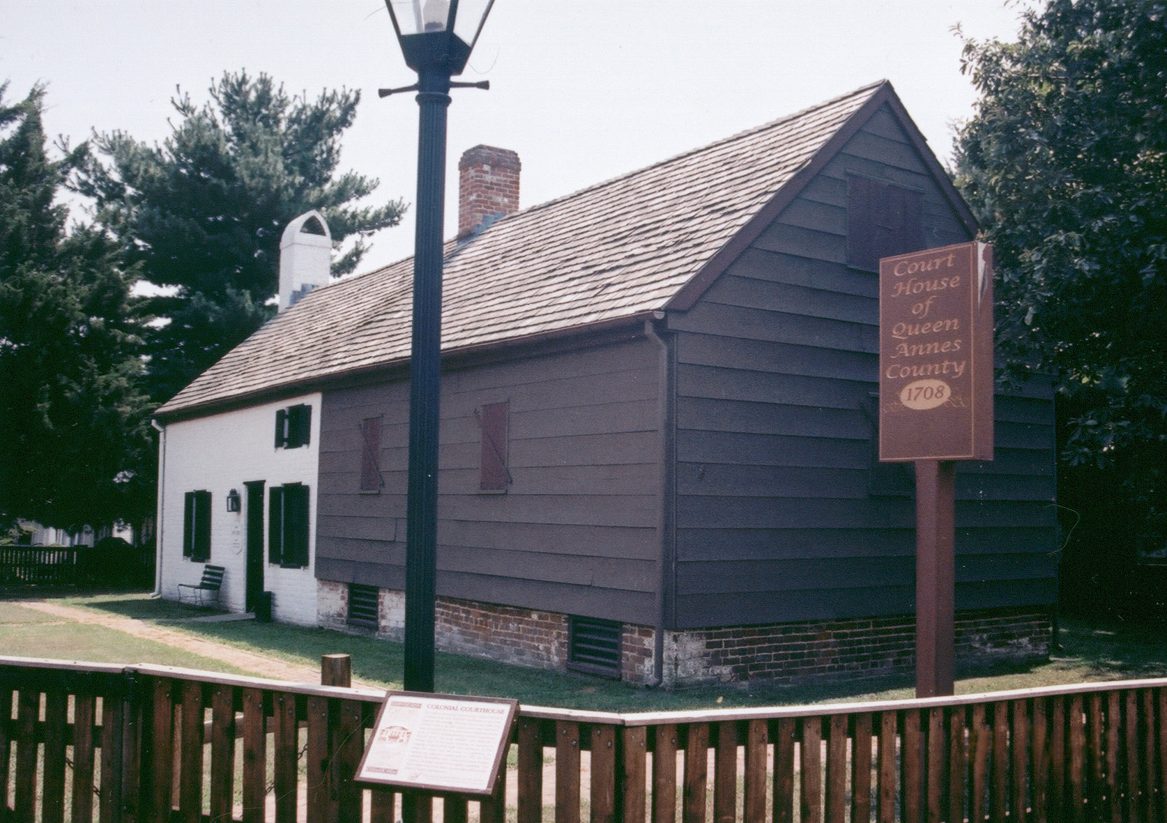 Courthouse of Queen Anne's County, Maryland, built in 1708. Located in Queenstown, Maryland, USA.